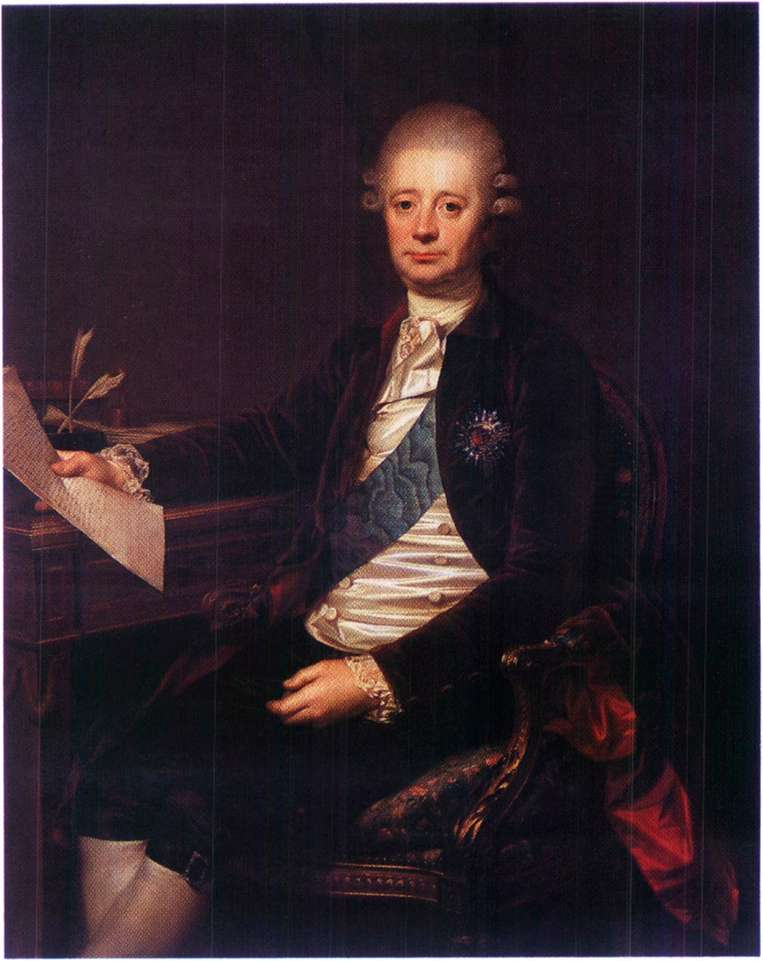 Portrait of Otto Blome